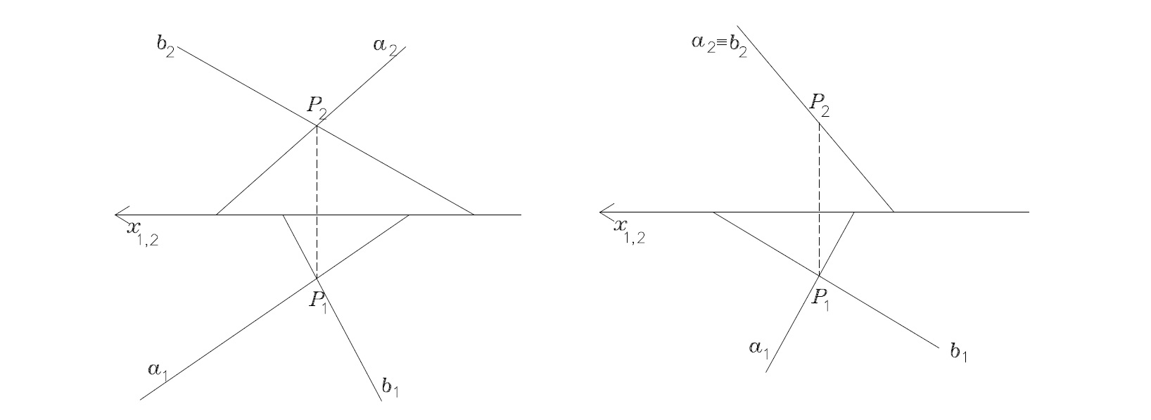 Взаимни положения на две прави